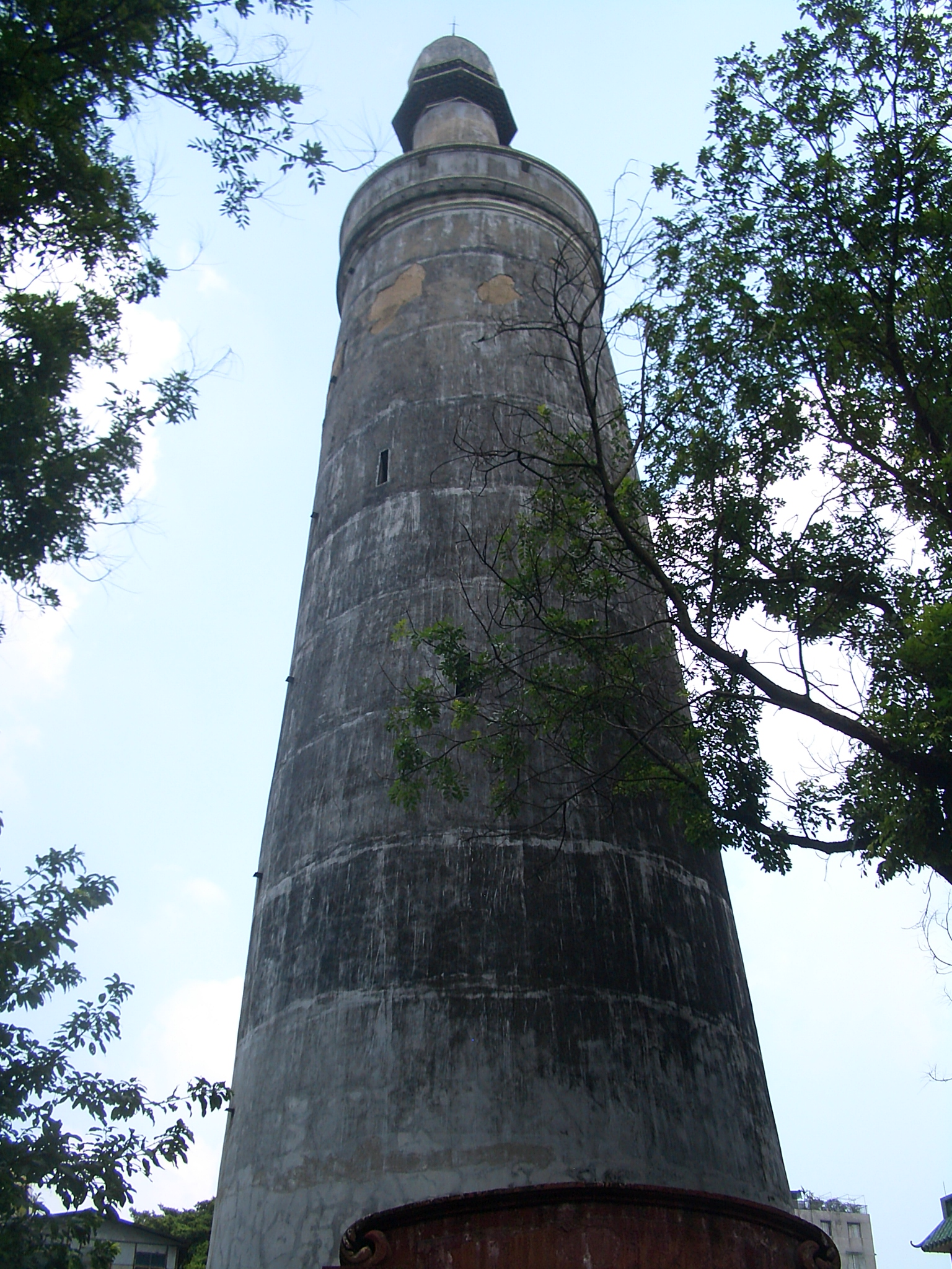 Huaisheng Mosque in Guangzhou